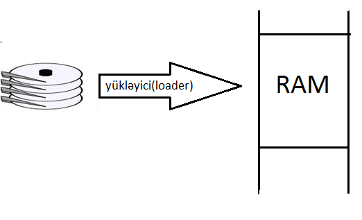 loader